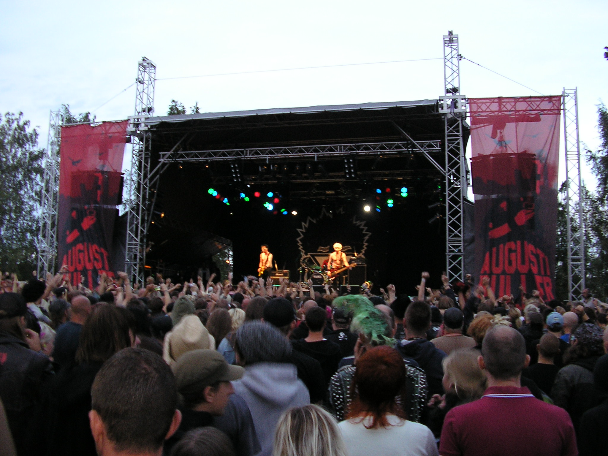 Toy Dolls playing at Augustibuller 2007.